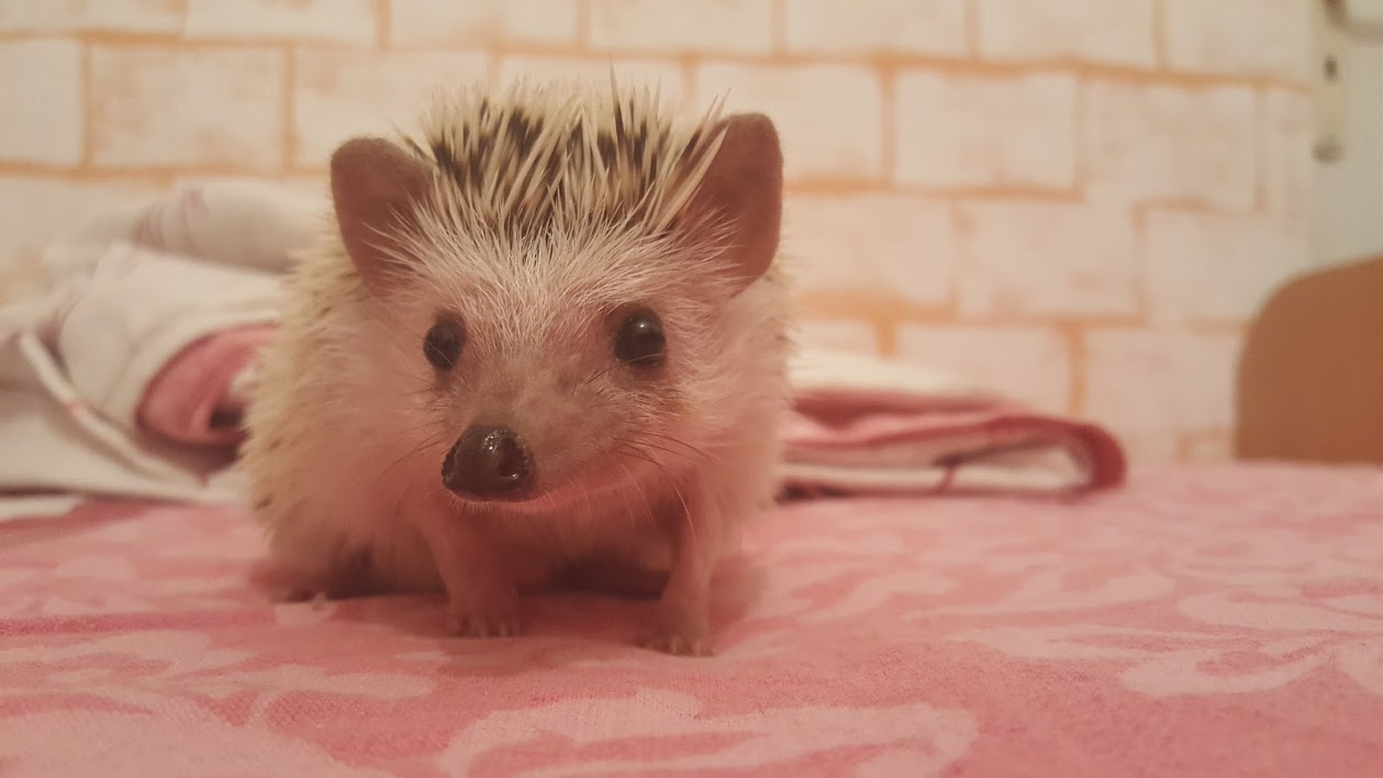 Mini African Hedgehog